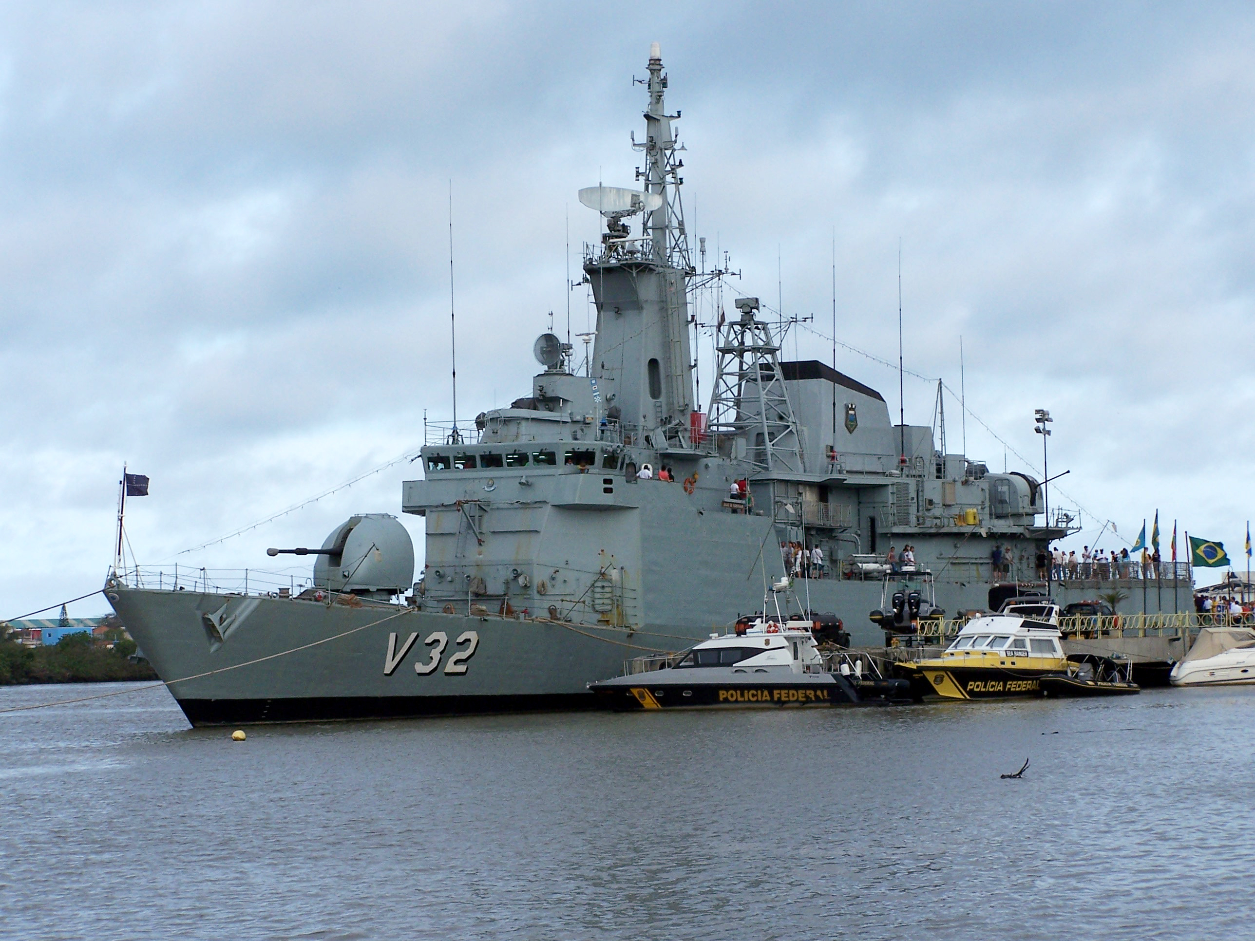 Brazilian Navy corvette Julio de Noronha.